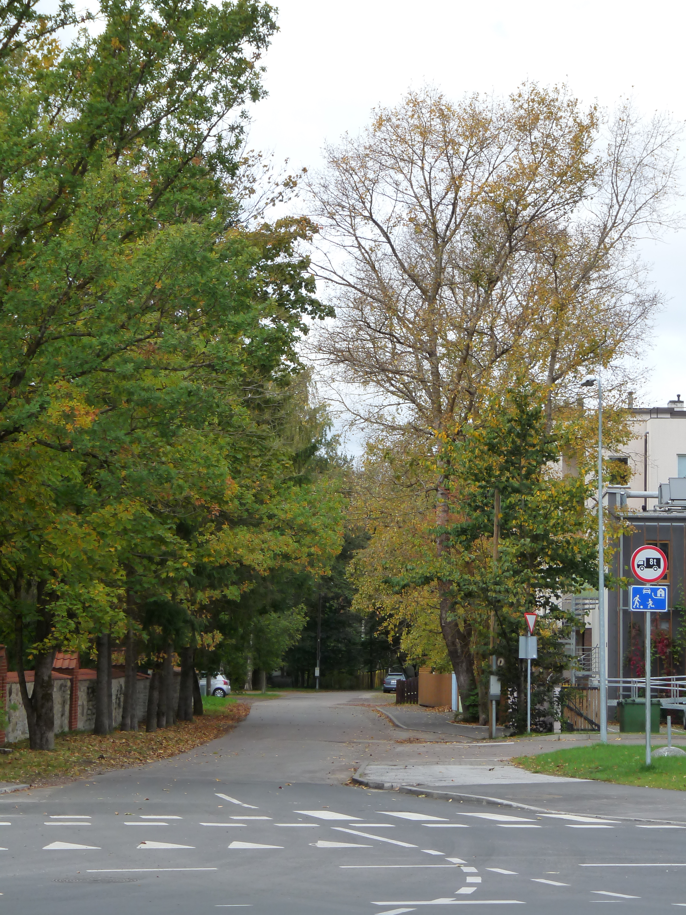 Kauge street in Tallinn, Estonia